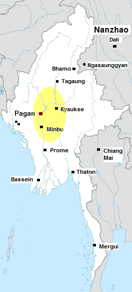 Kingdom of Pagan at Anawrahta's accession in 1044. Based on Harvey (1925), p. 24